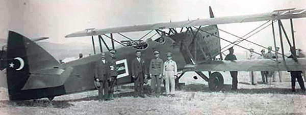 Letov Š-16T Smolik in Turkish service during the Ararat rebellion